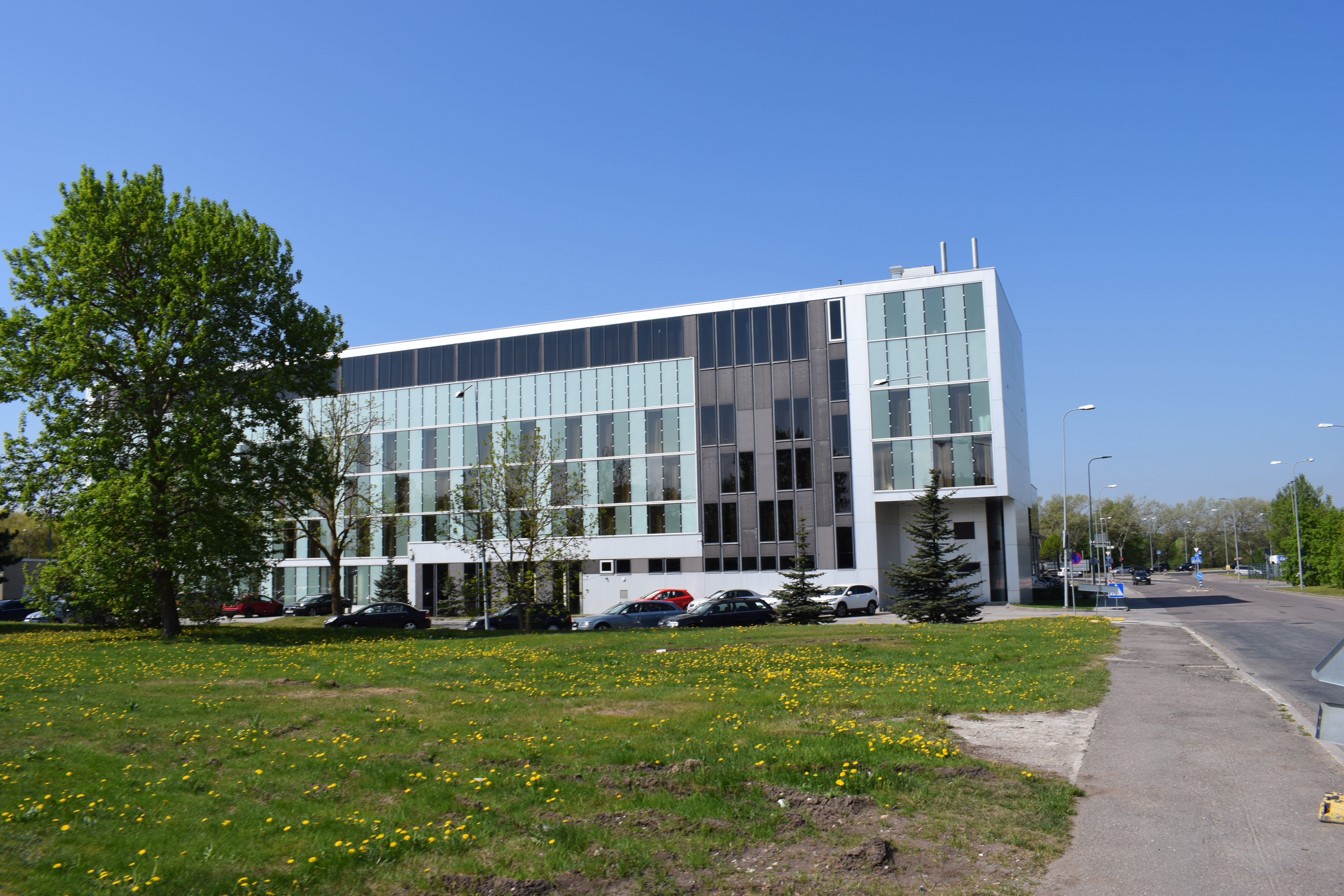 Tallinn